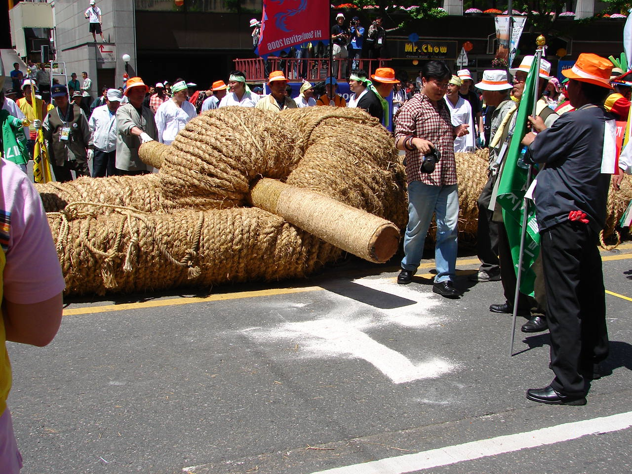 Hi! Seoul Festival event